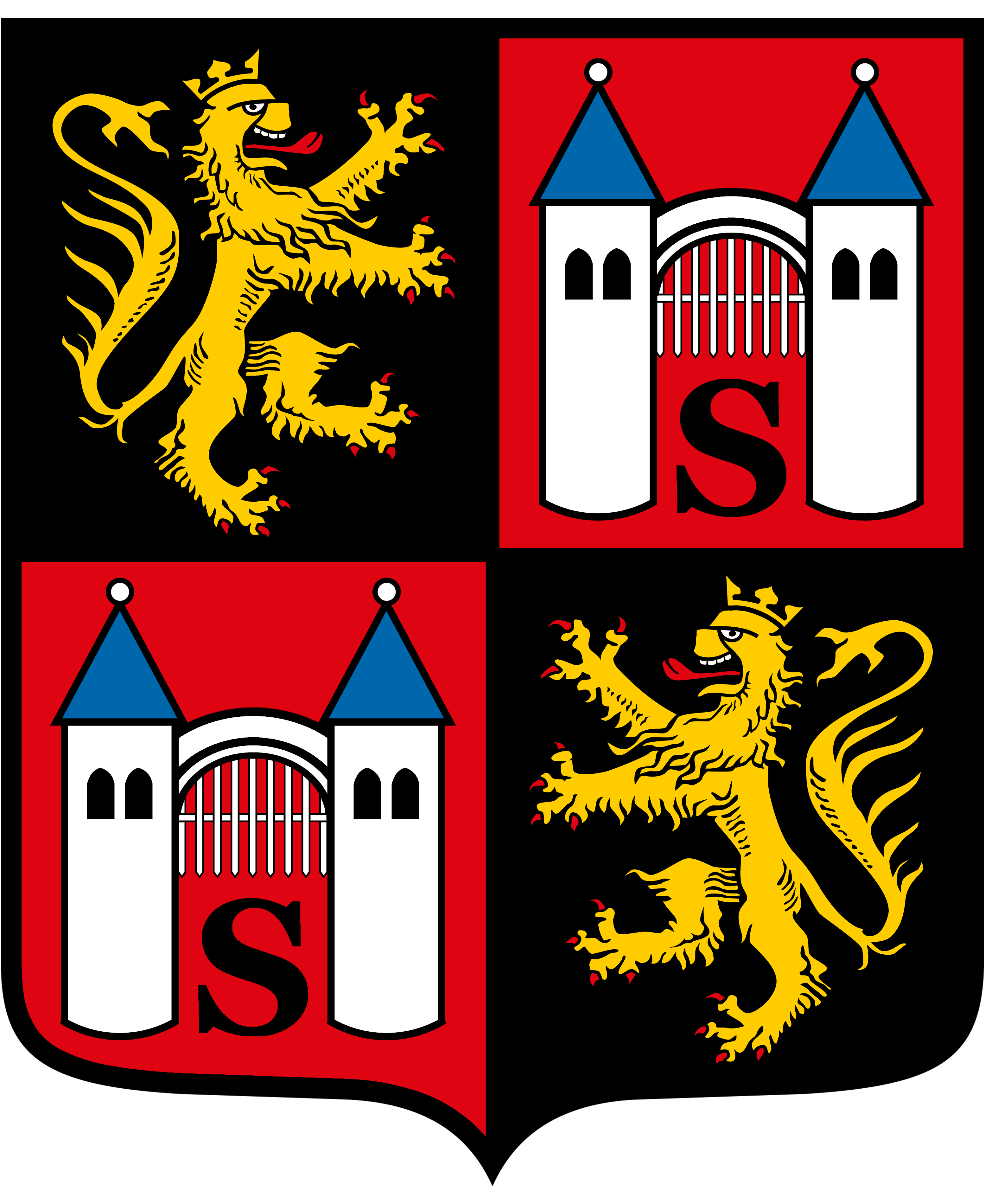 Coat of arms Żagań (1602 - 1968)